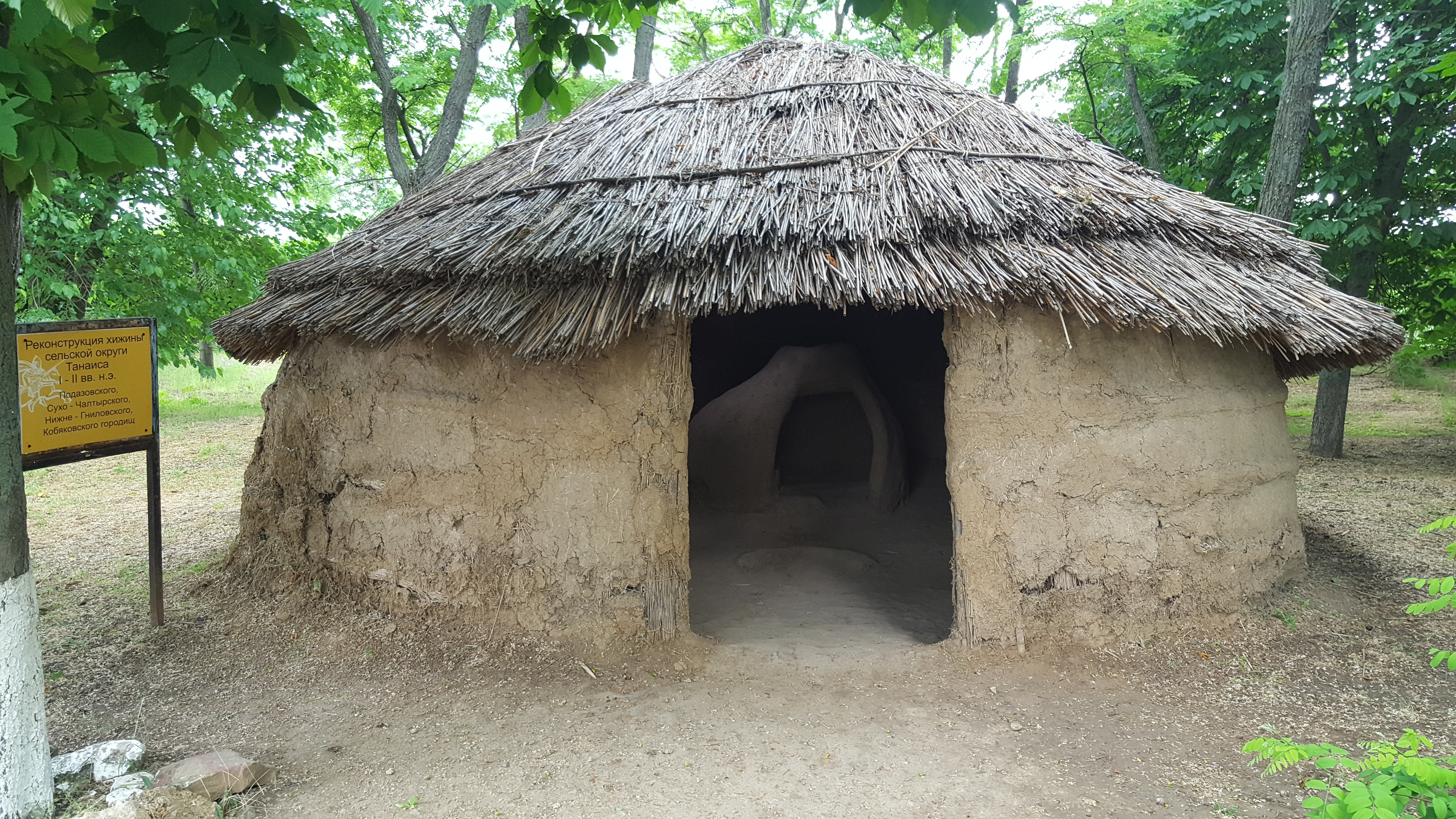 Reconstruction of a hut typical for a rural area around Tanais. I-II c.